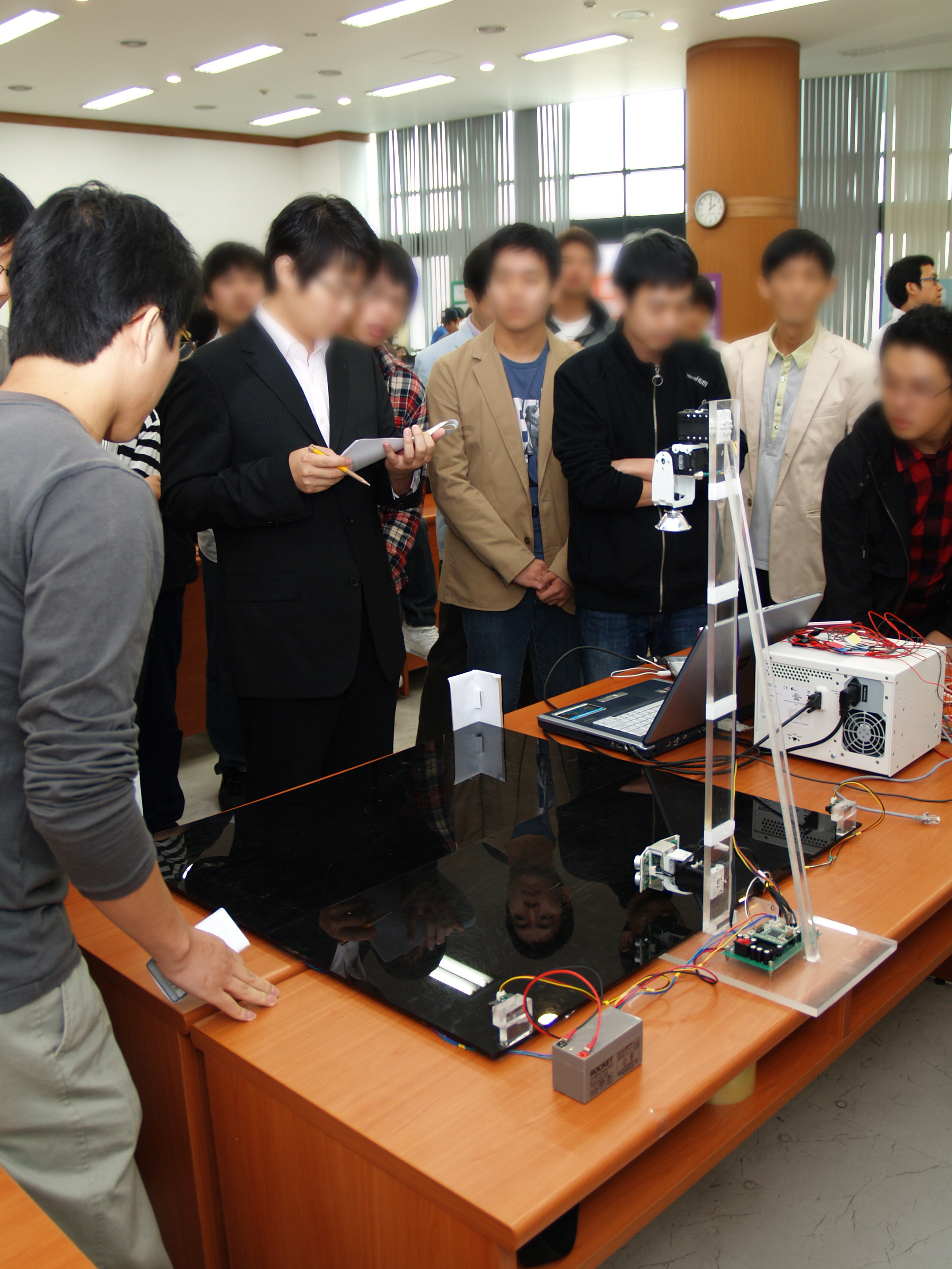 Capstone design fair, Hanyang University